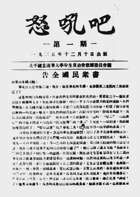 Gao Quan Guo Ming Zhong Shu, by the students in Tsinghua University, 1935.